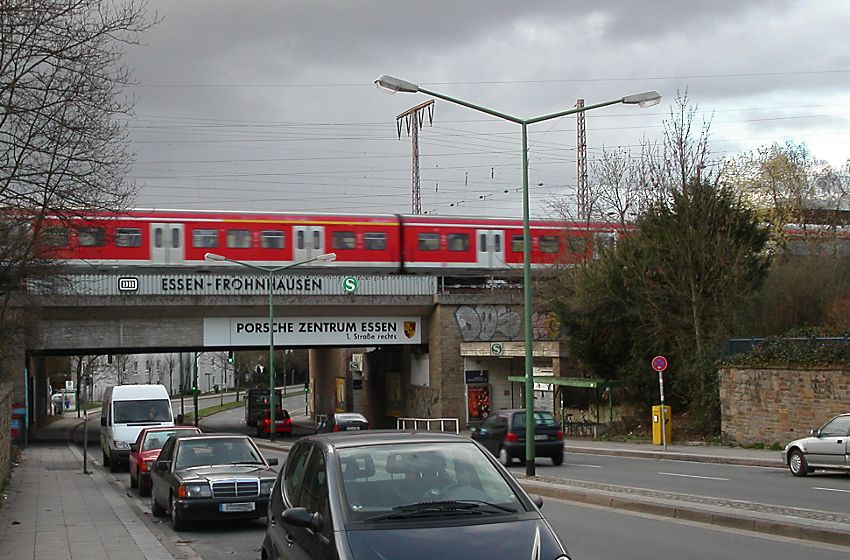 Trainstop Essen-Frohnhausen